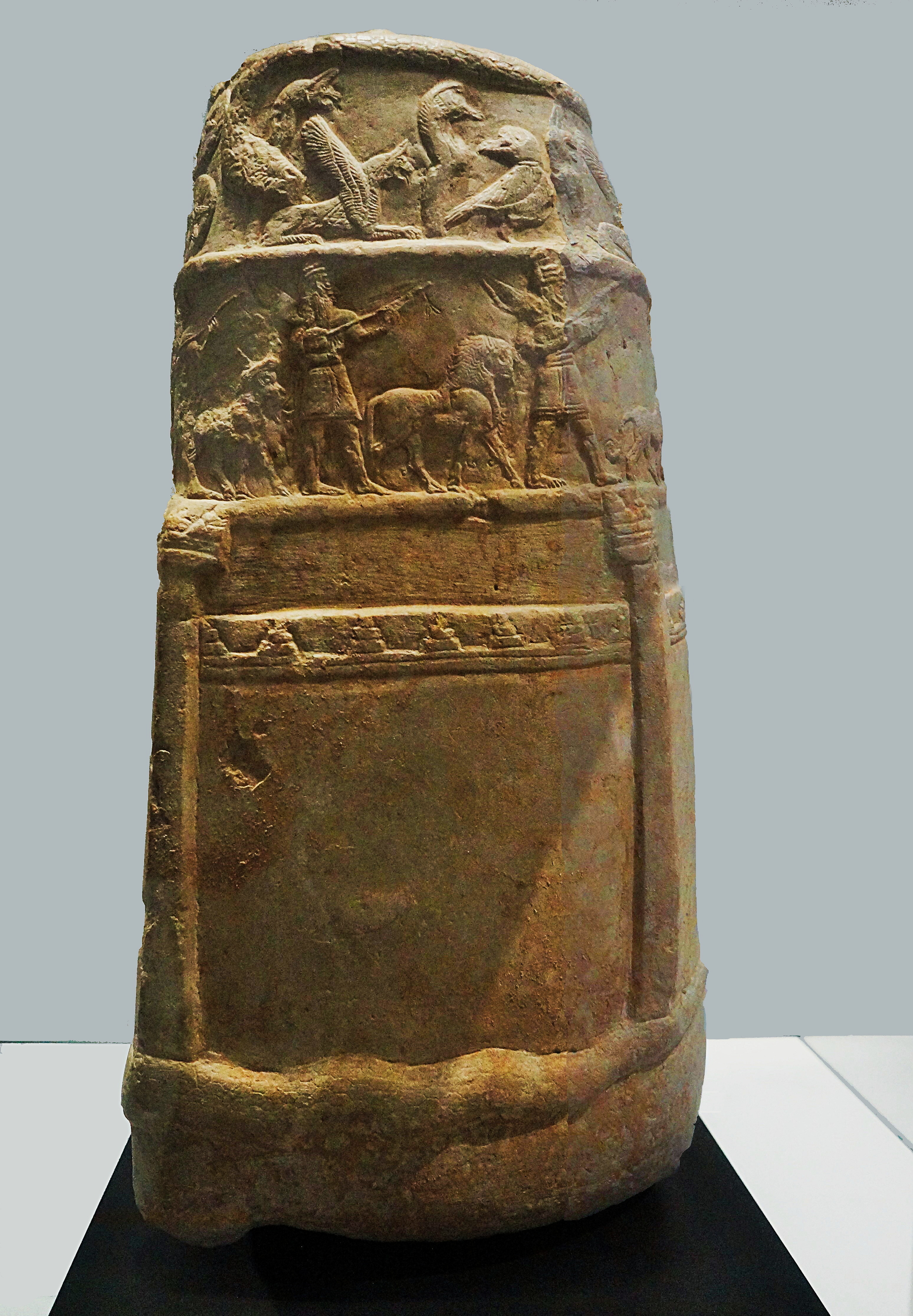 Kudurru of Babylon Cassita, in white limestone, J. de Morgan excavations. The most prominent gods are presented as symbols. Visible to Musée Louvre-Lens à Lens, Pas-de-Calais, Hauts-de-France, France.